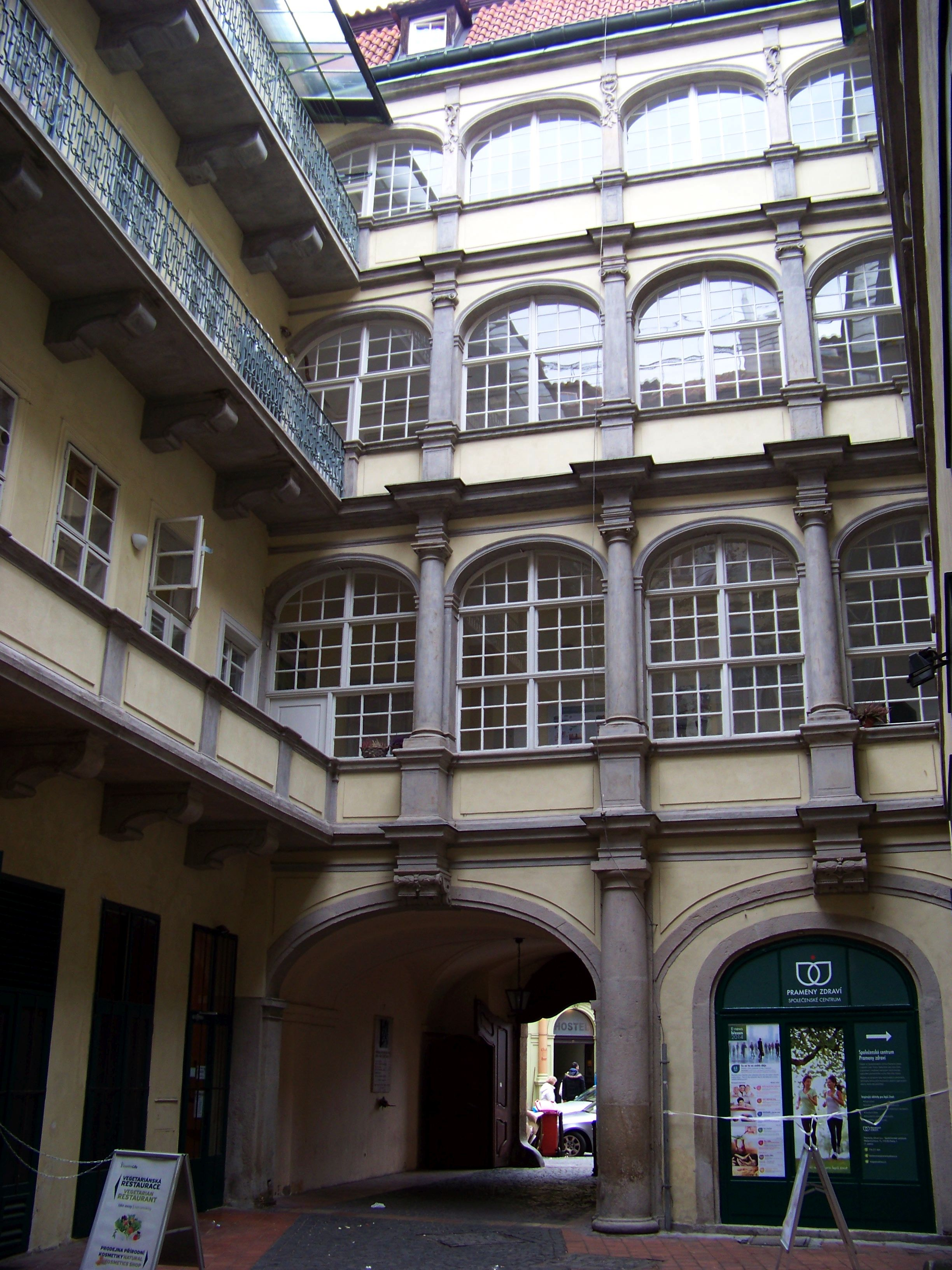 Prague-Old Town, Czech Republic. Melantrichova 463/15, Michalská 463/18, a courtyard and a passage.